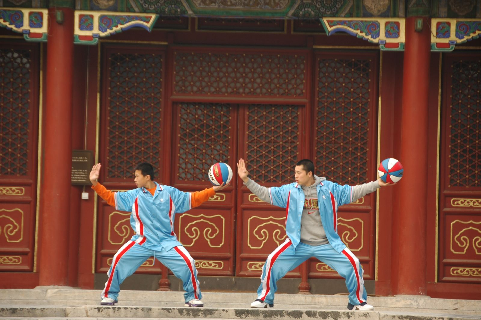 The Jingshan Park in Beijing